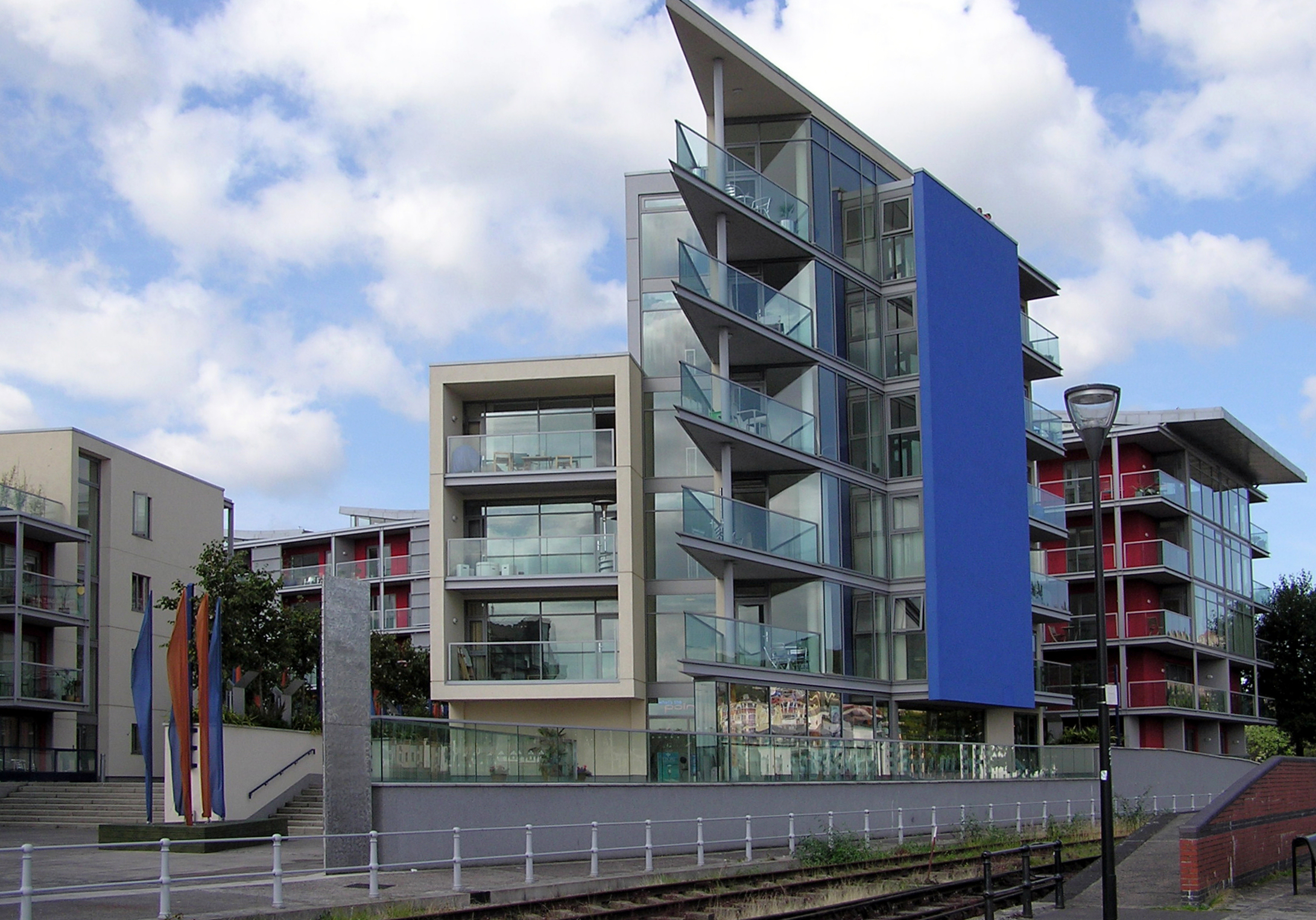 Apartments (also called Flats) at Bristol Harbour, Bristol, England.